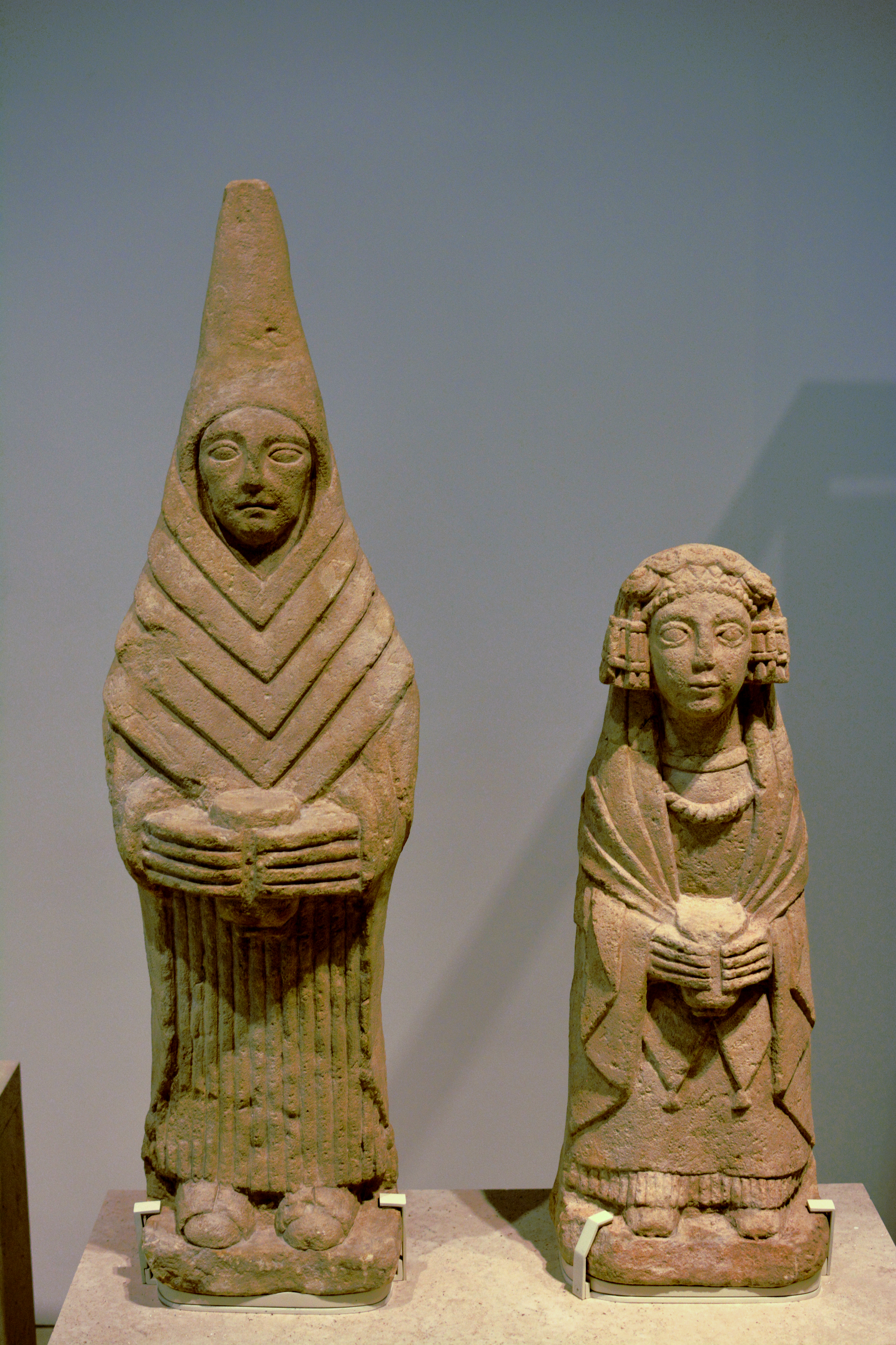 Iberian sculptures from Cerro de los Santos. Limestone. 3rd to 2nd century BCE. Women bearing offerings.